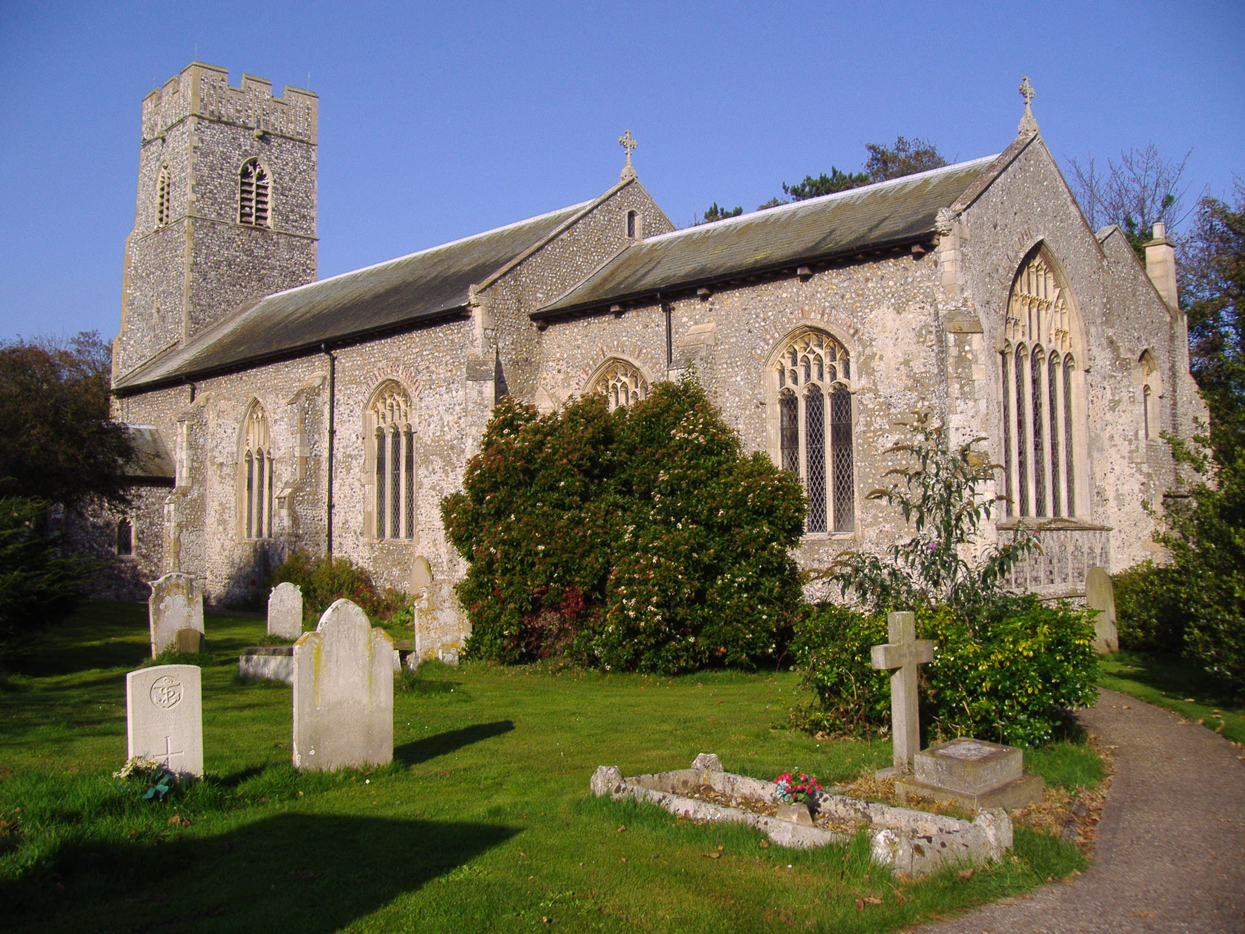 A Digital Photo of Overstrand Paris Church taken on the 23rd October 2007 by stavros1